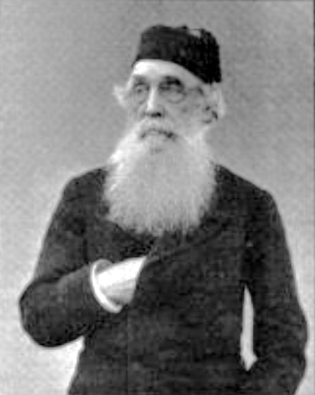 Samuel Stevens (1817–1899), natural history dealer in London